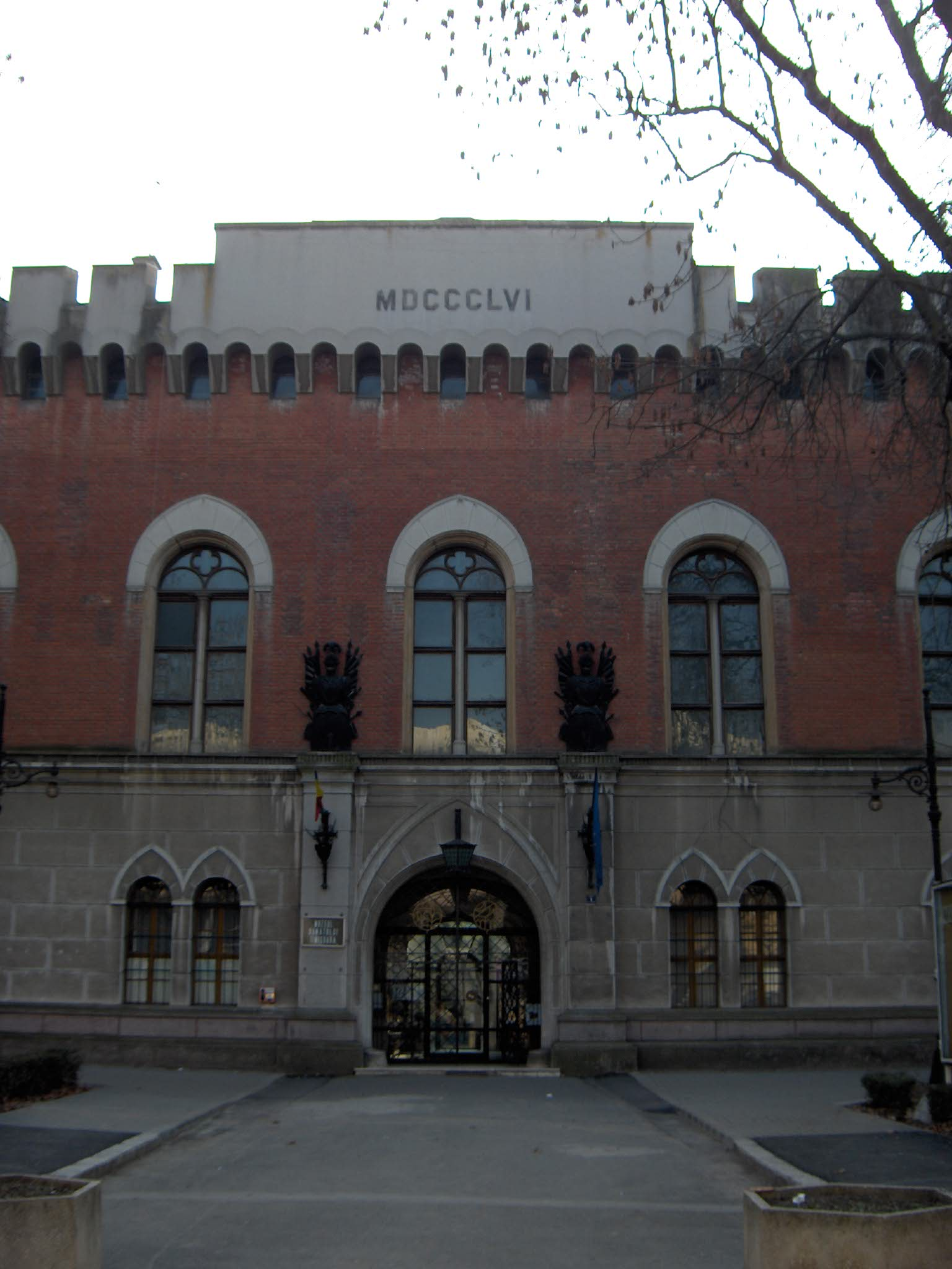 Castelul Huniazilor, Timisoara